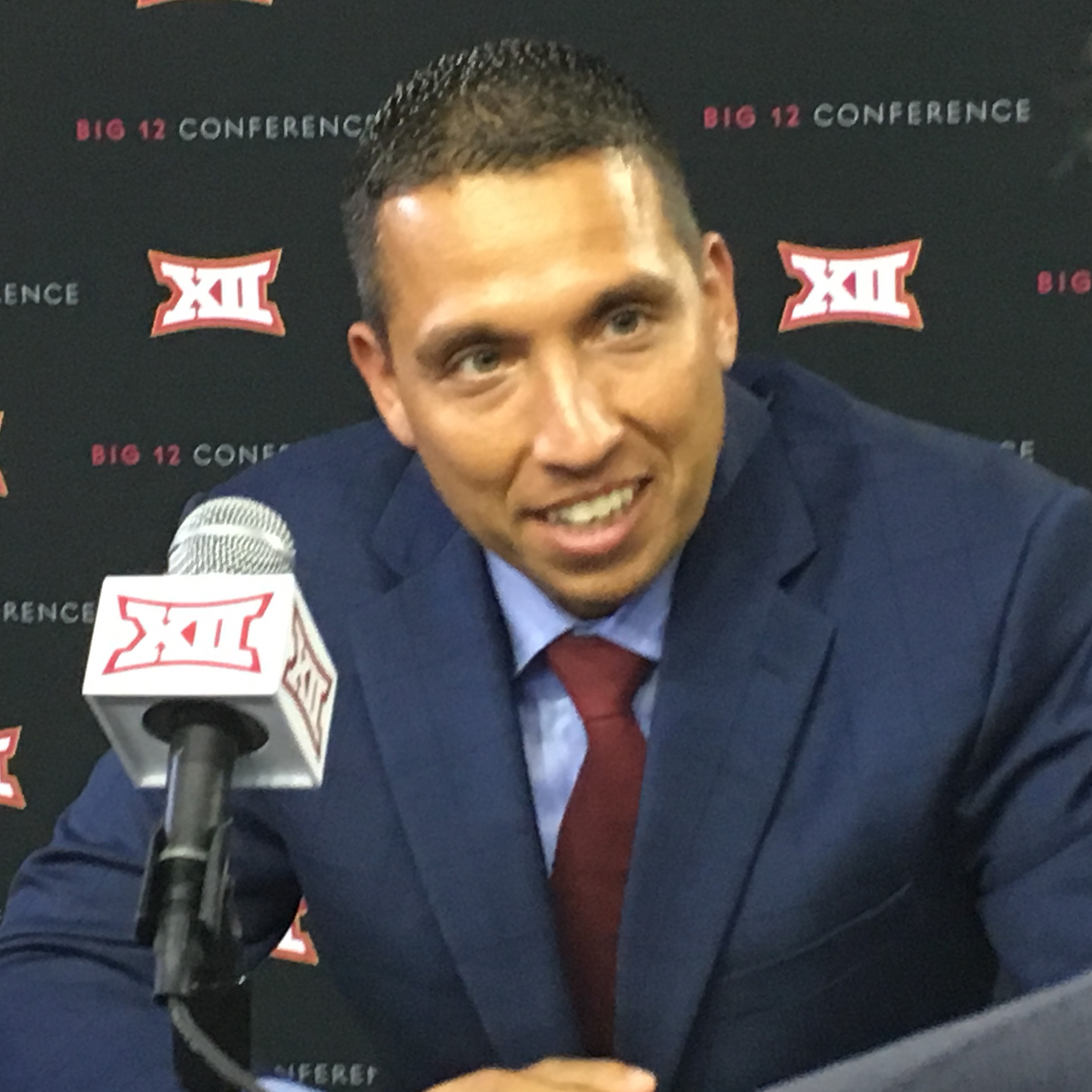 Matt Campbell, head coach of the Iowa State Cyclones football team, at the 2017 Big 12 Conference Media Days in Frisco, Texas.